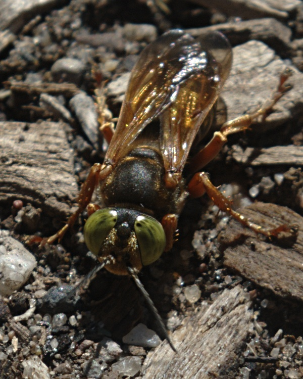 Wasp of the genus Tachytes (family Crabronidae, subfamily Crabronini, tribe Larrini), my yard, Española, New Mexico. Thanks to Edward Trammel at for ID.